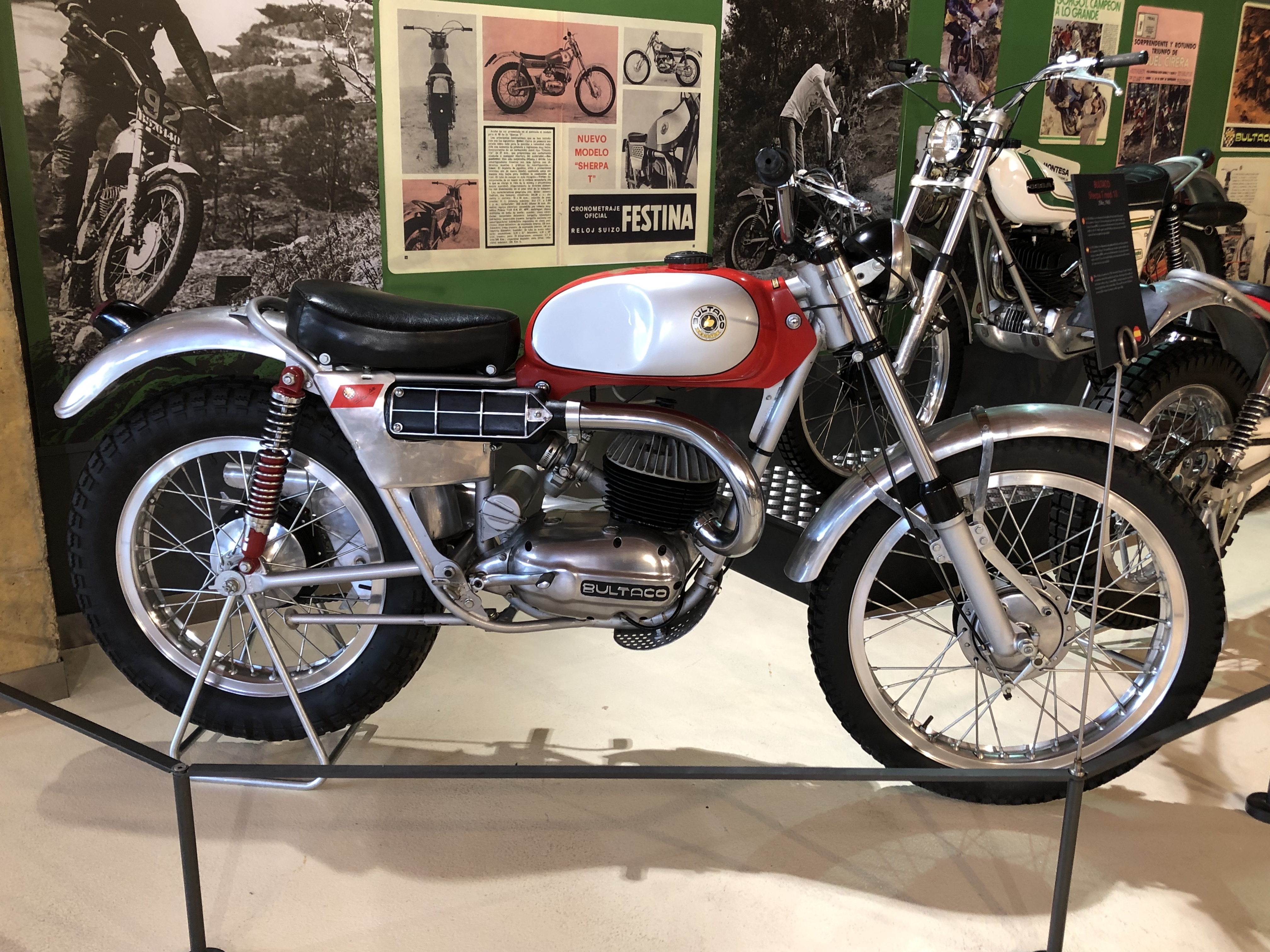 Bultaco Sherpa T Model 10, 250 cc, 1965. The first version of the Sherpa T, developed by mythical Northern Irish rider Sammy Miller in collaboration with Bultaco.